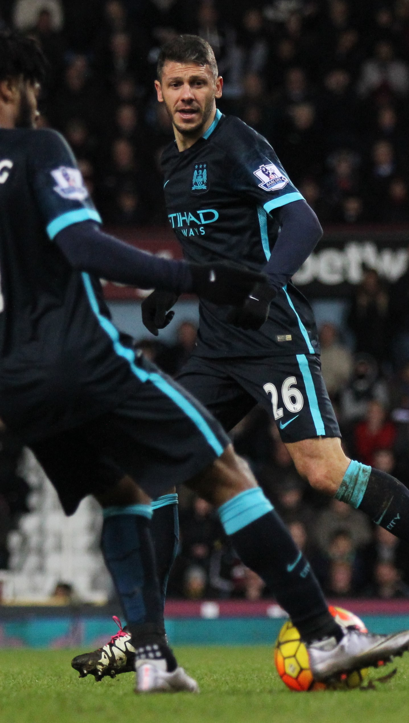 Martin Demichelis of Manchester City watches on as Raheem Sterling controls the ball during the game against West Ham.